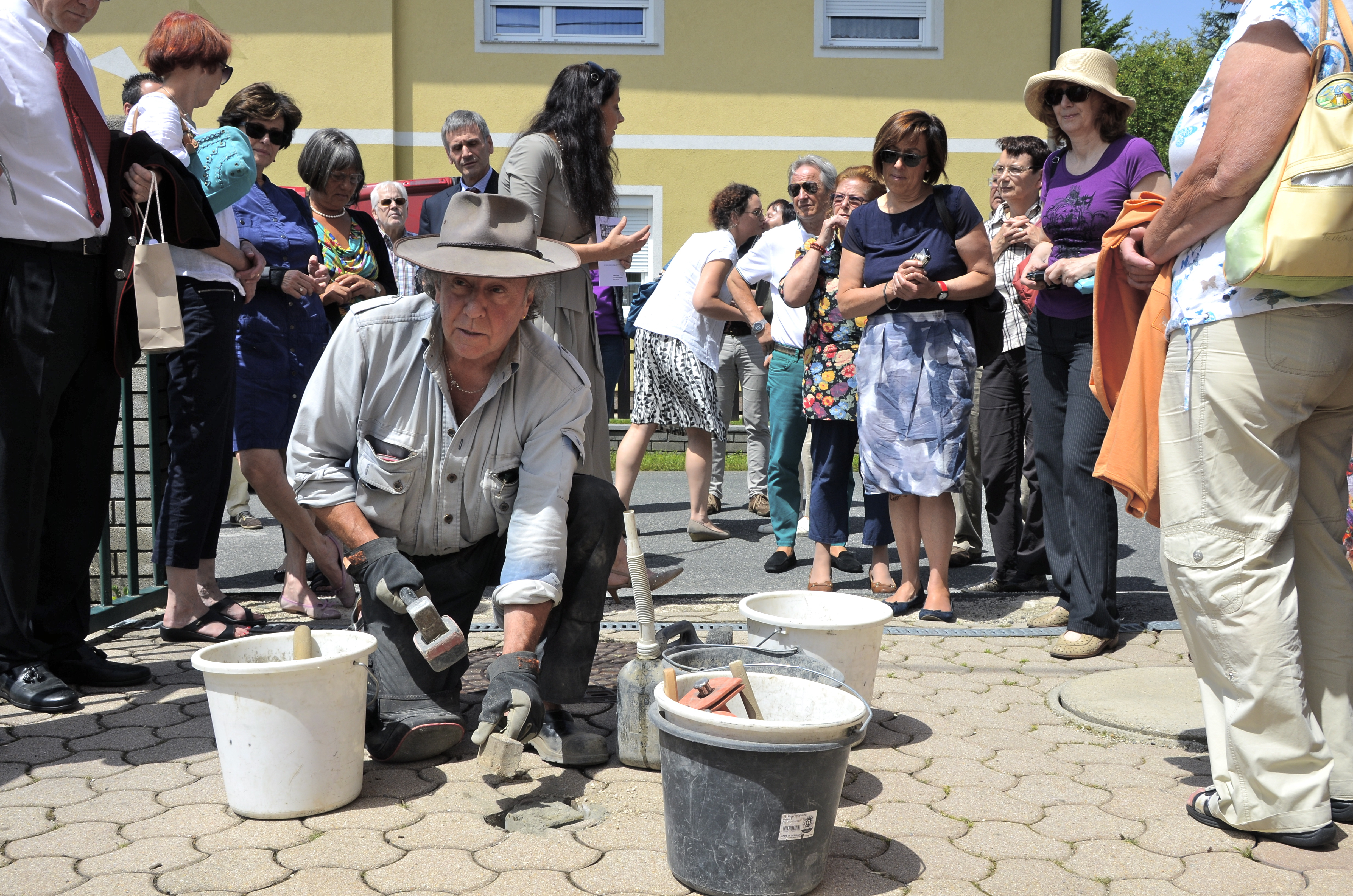 Stumble stone for the memory of Karl Strauss on Perlengasse #30, city of Klagenfurt, Carinthia / Austria / EU